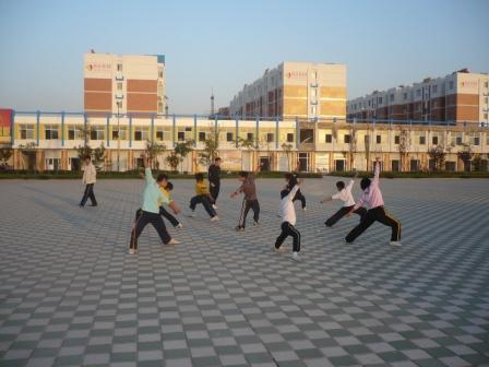 Group that practise Meihuaquan in Pingxiang, Hebei